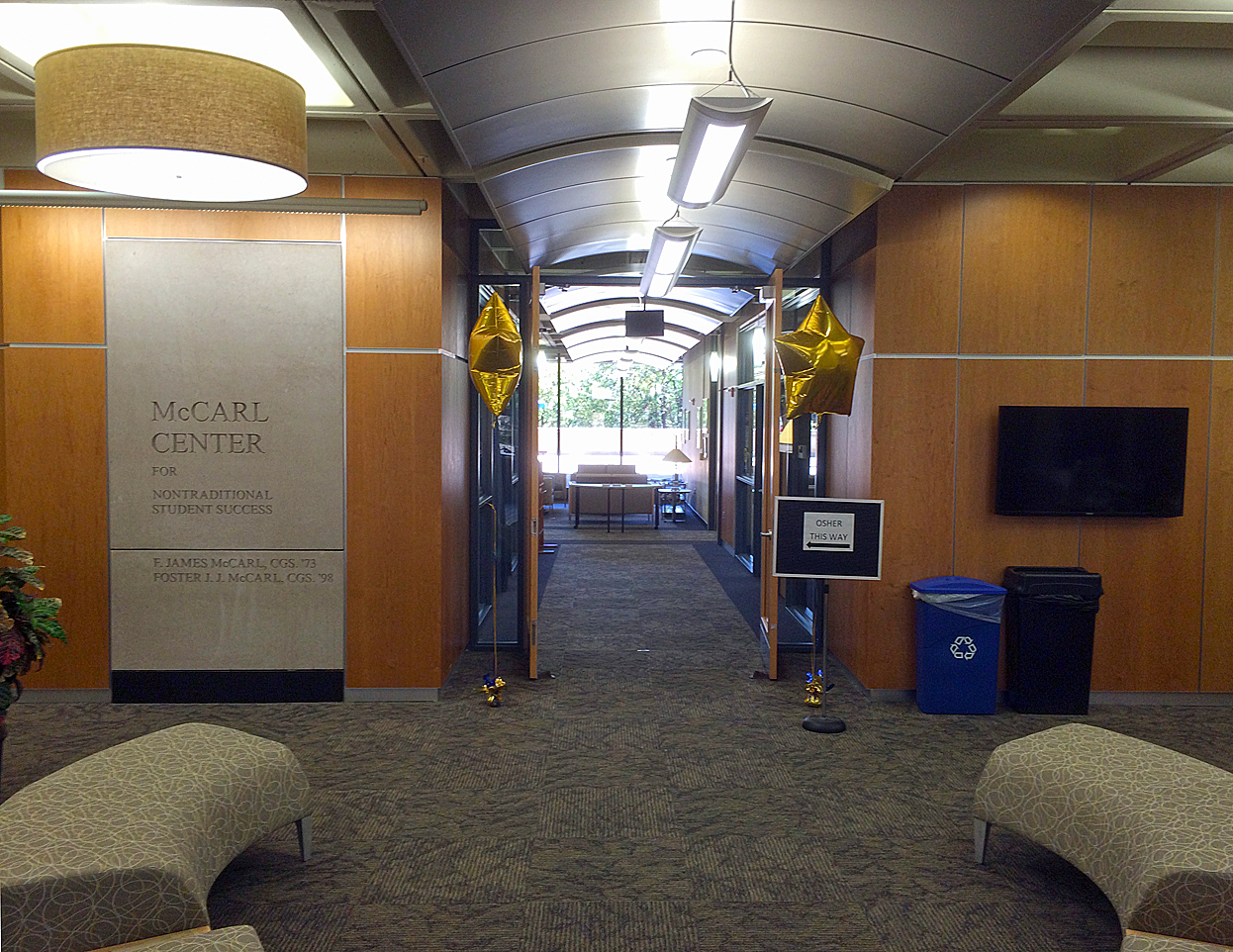 College of General Studies and McCarl Center for Nontraditional Student Success in Posvar Hall at the University of Pittsburgh